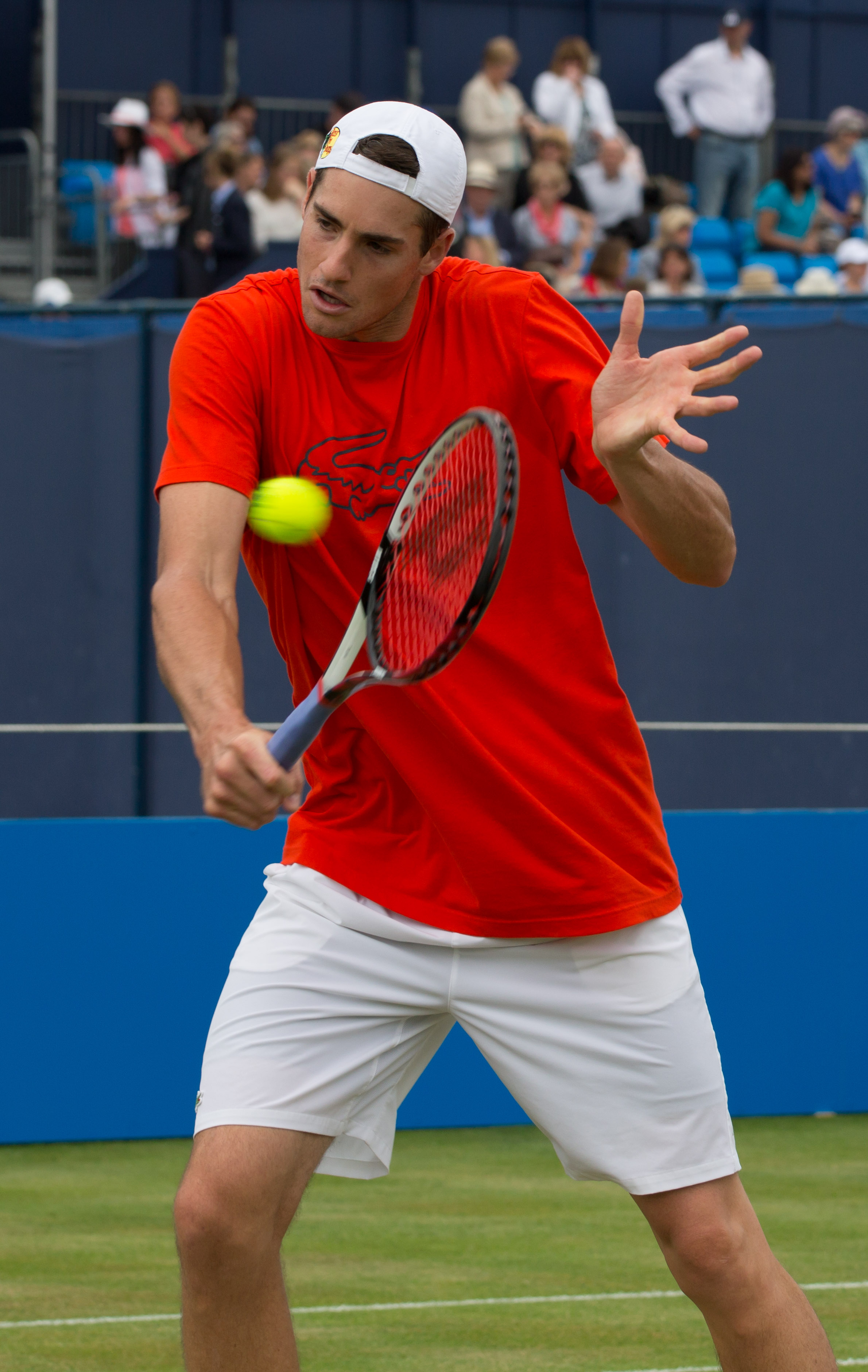 John Isner during practice at the Queens Club Aegon Championships in London, England.